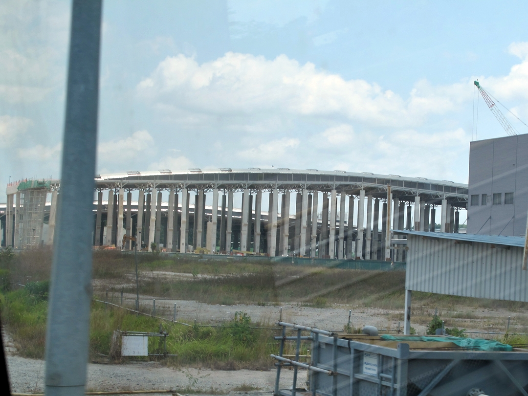 Tuas Depot under construction in Singapore.